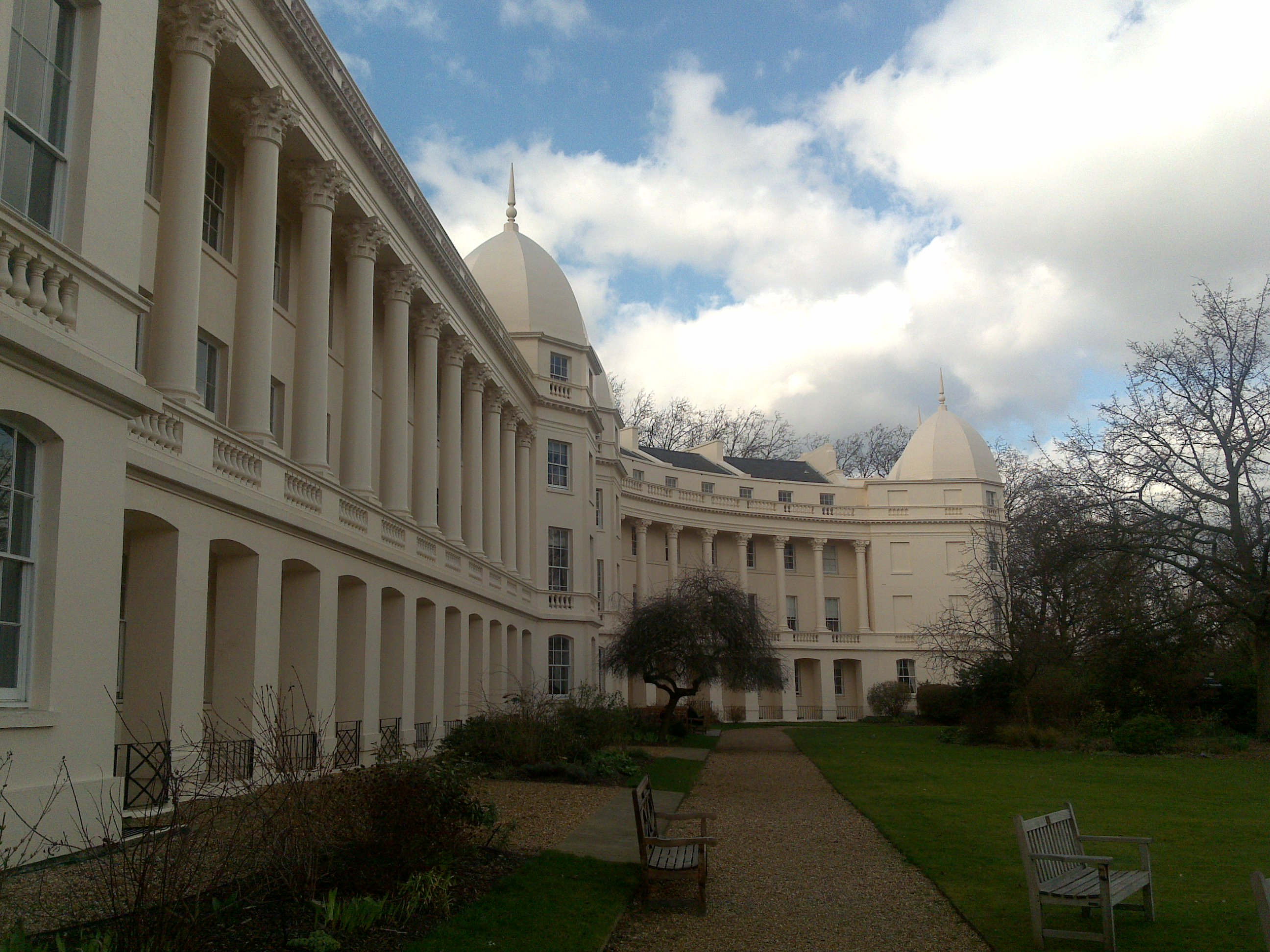 London Business School, UK